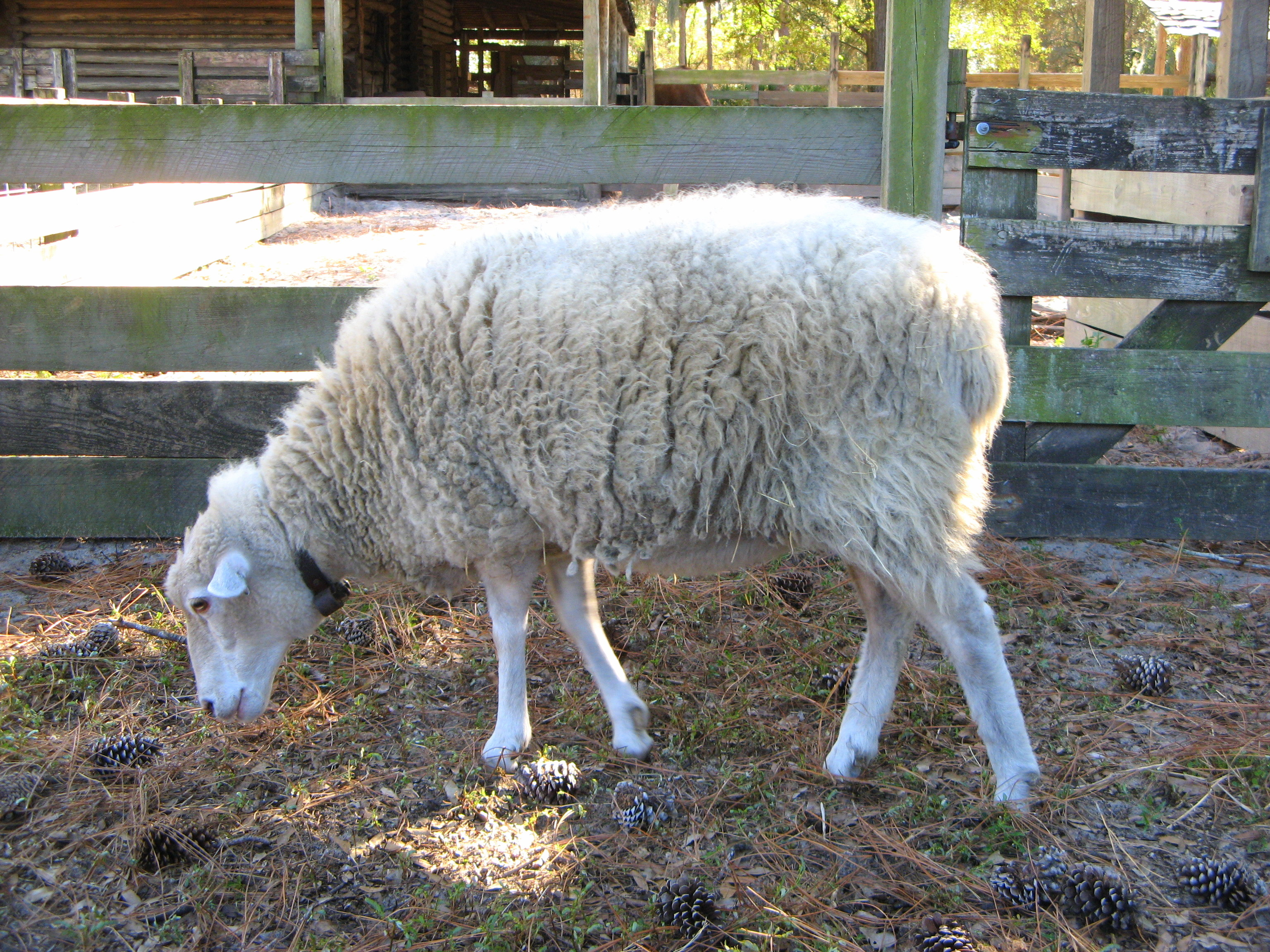 Gulf Coast sheep, Morningside nature center and living farm in Gainesville, FL.